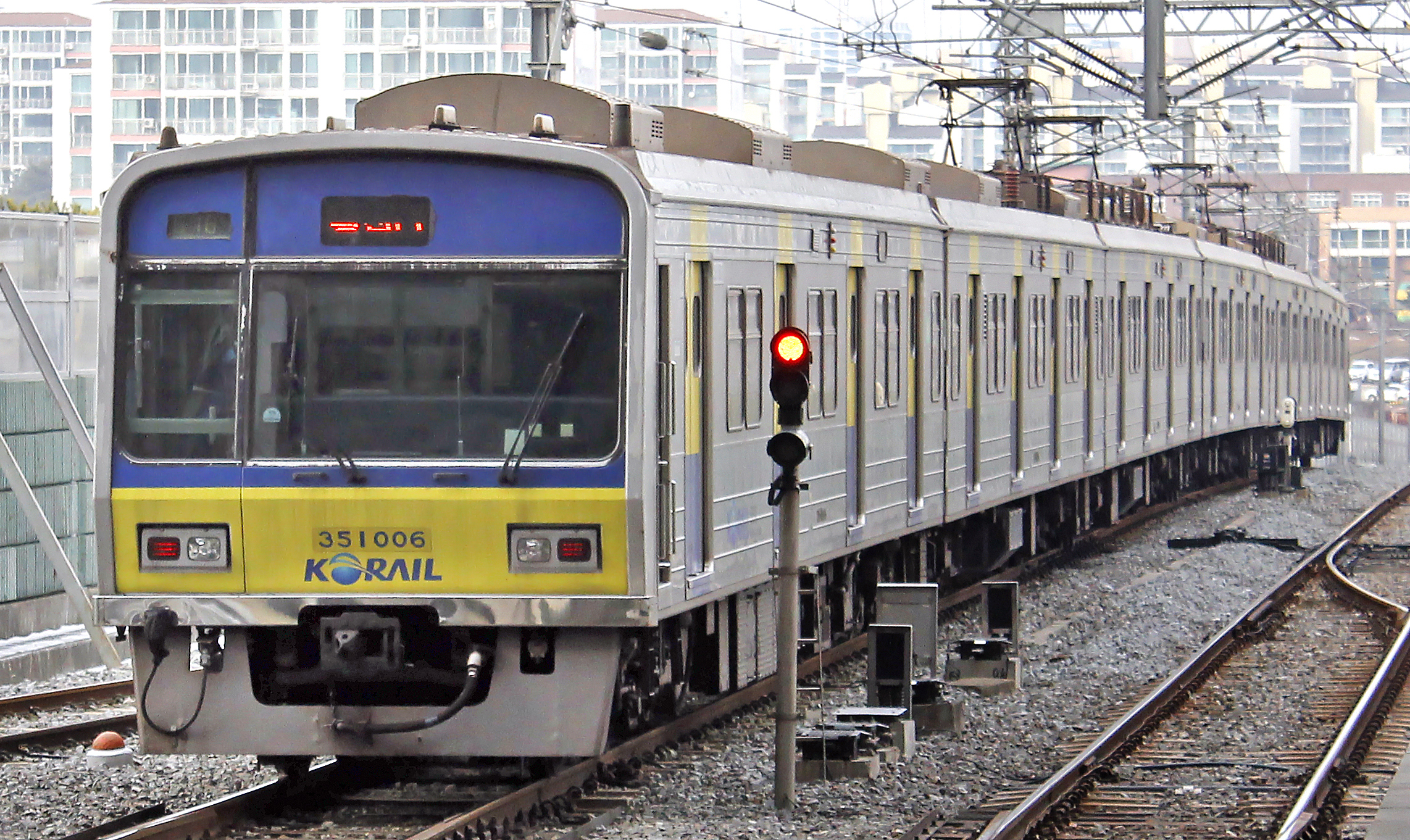 Korail Class 351000(1st batch) EMU leaving Jukjeon Station.